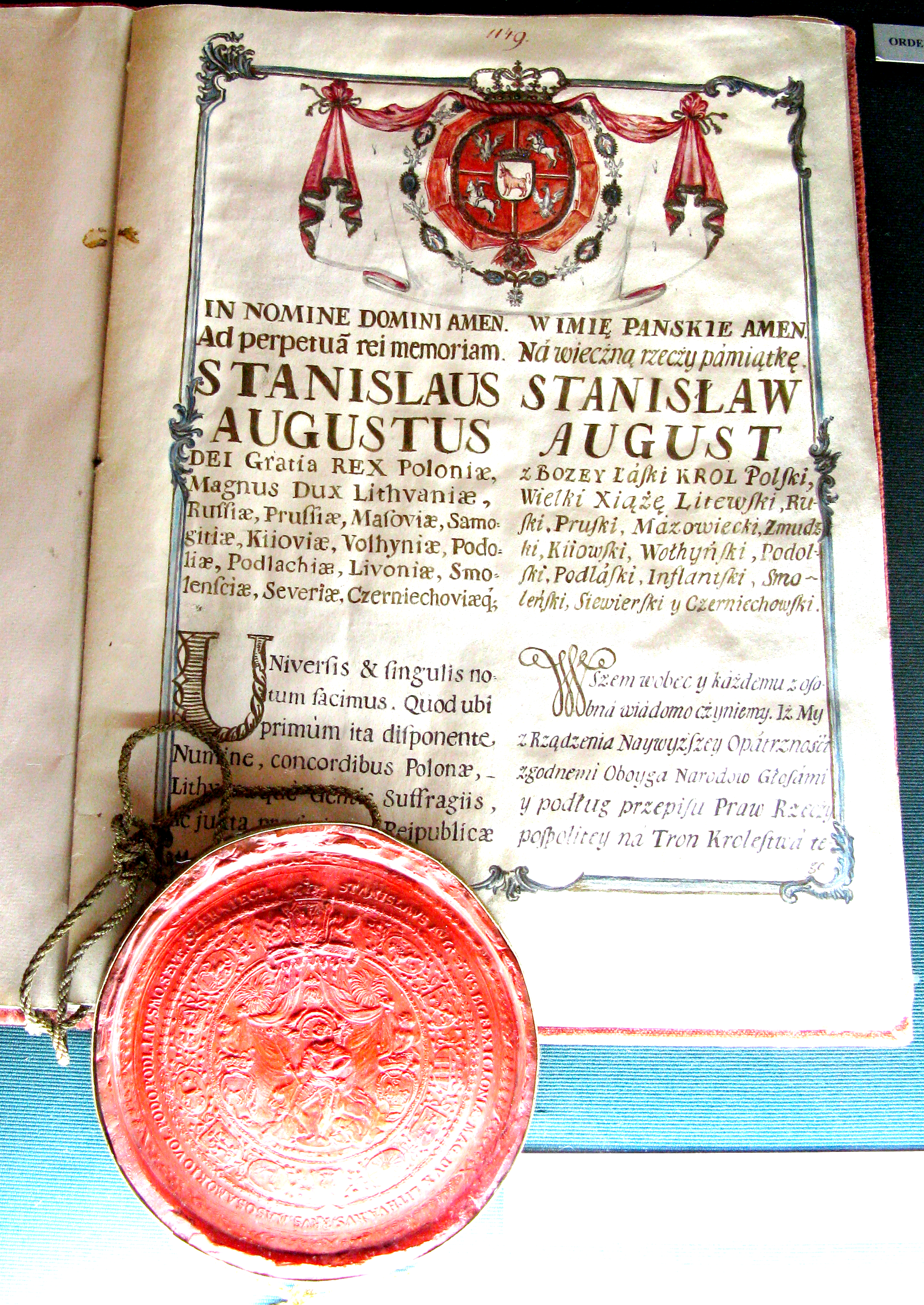 Order of Saint Stanislaus foundation act